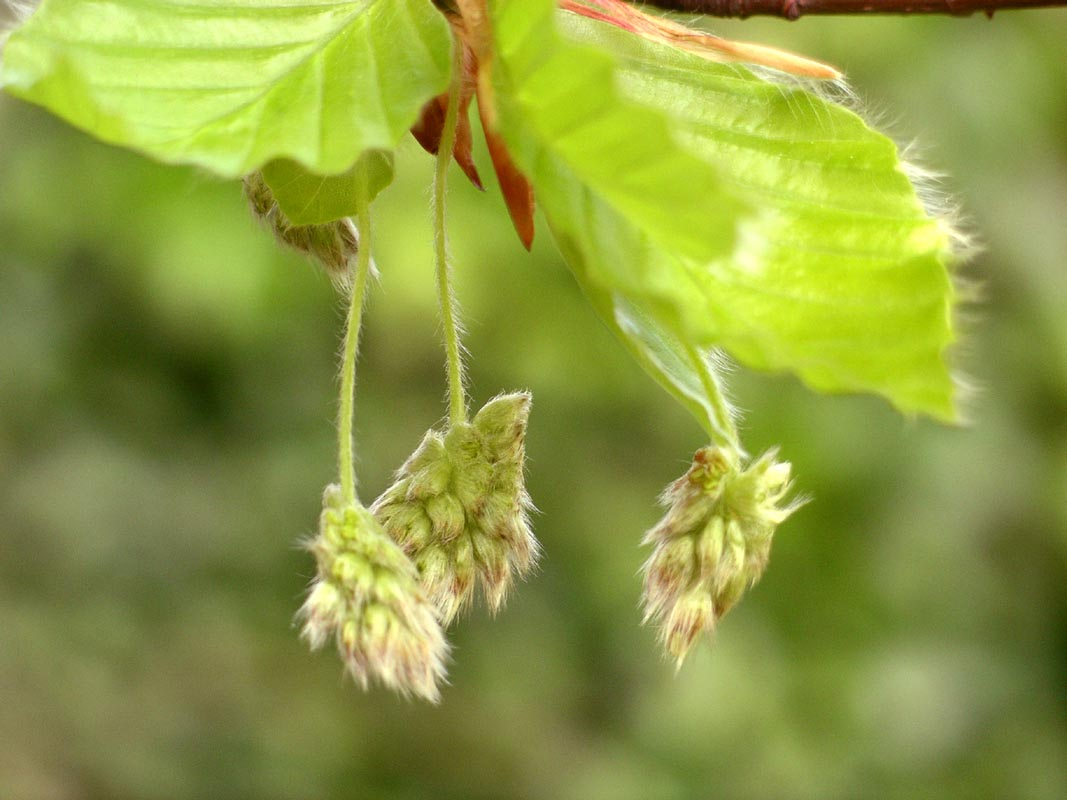 Flowers of Beech, May 2006